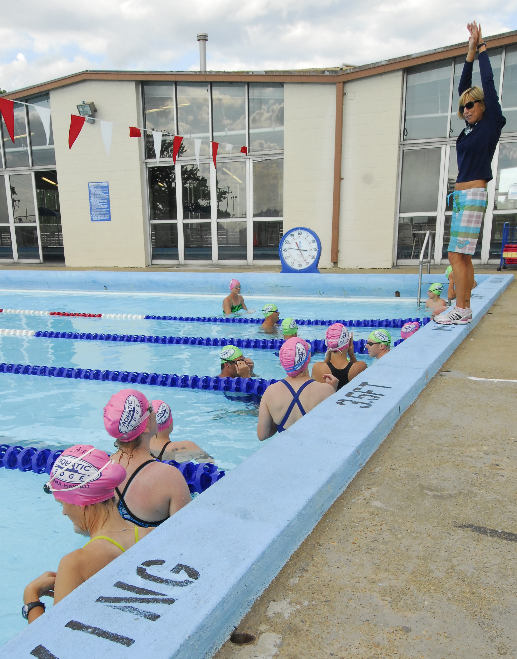 World-record holder Karlyn Pipes-Neilsen, right, teaches service members and their families freestyle swimming techniques at a clinic sponsored by Morale, Welfare, and Recreation on Naval Station Norfolk, Va., June 14, 2011.